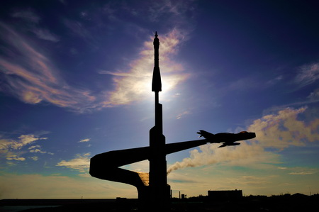 Jezkazgan